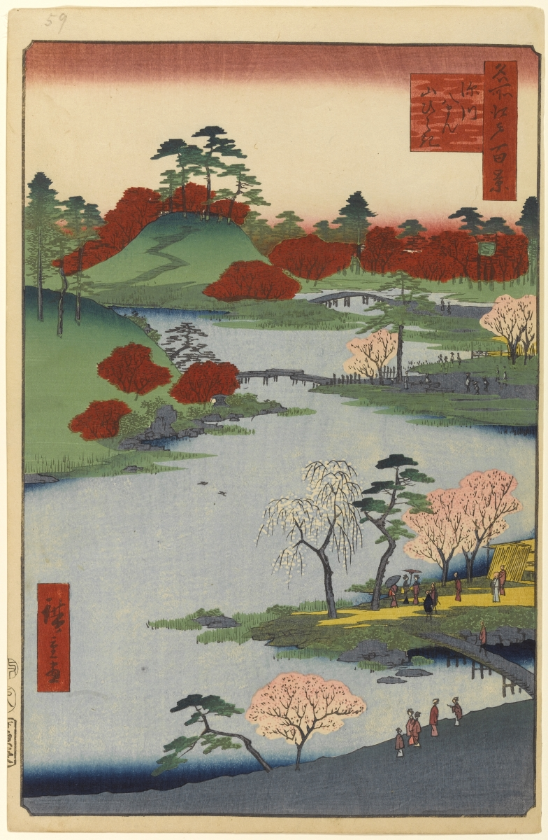 Part of the series One Hundred Famous Views of Edo, no. 068, part 2: Summer.